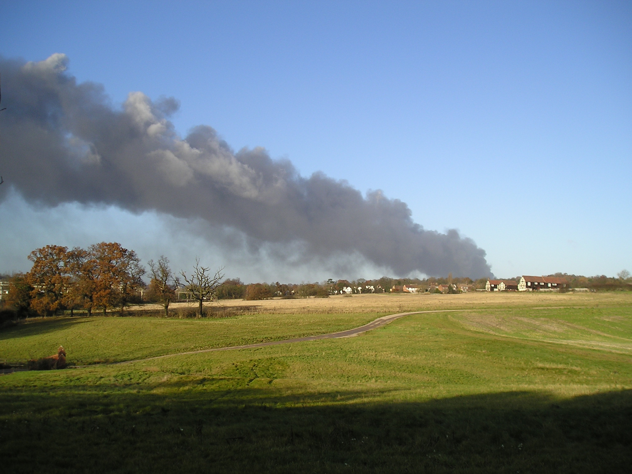 The smoke plume from the Buncefield fire, seen from 3.75 miles (6 km) away, the day after the explosion